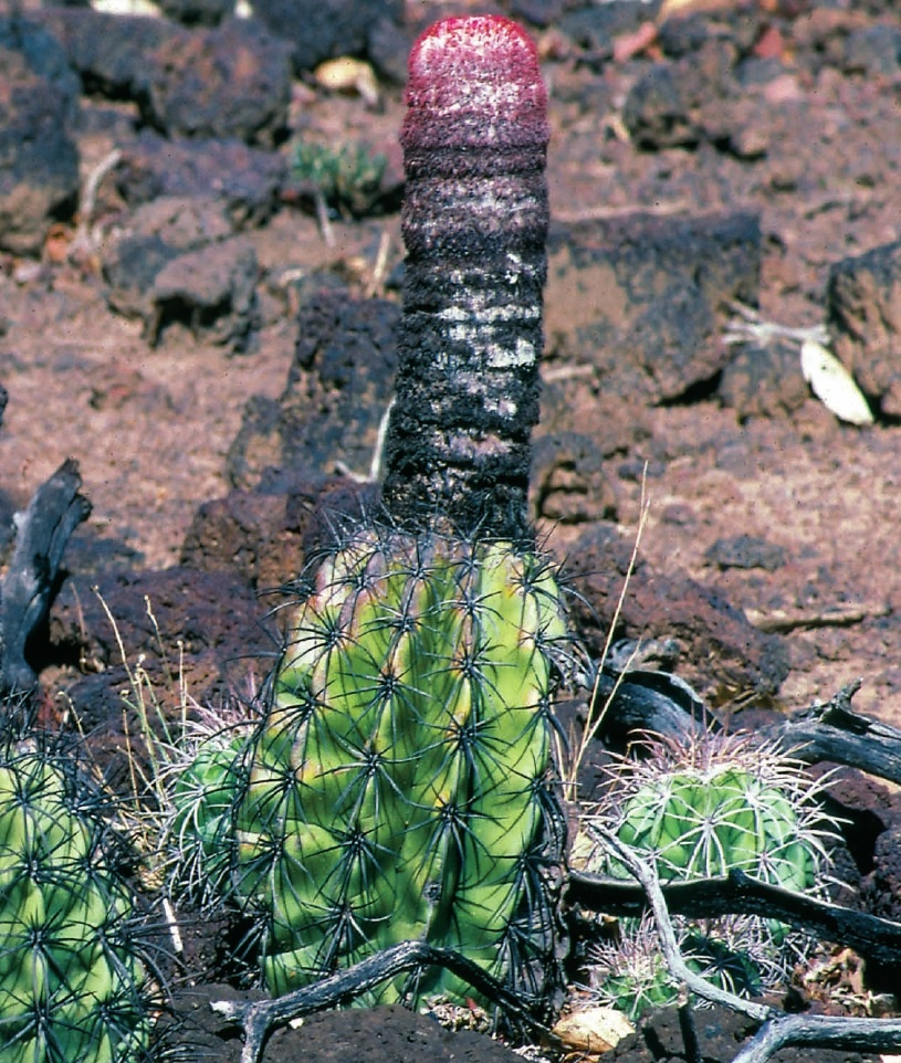 E of type locality, S Bahia, Brasil